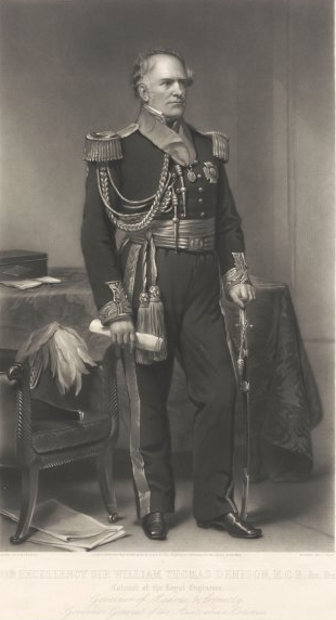 Photograph of William Denison, taken in 1863.